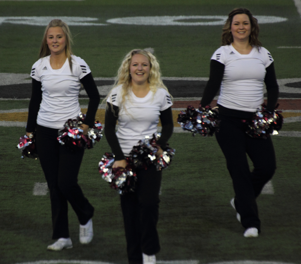 Sunday September 22 7:00 Junior Football game in the Prairie Football Conference. Canadian Junior Football League teams included Regina:Regina and Saskatoon. Saskatoon Hilltops were the visitors at Mosaic Stadiuml home to the Regina Thunder and Saskatchewan Roughriders. The game concluded at Hilltops 42-17 Thunder